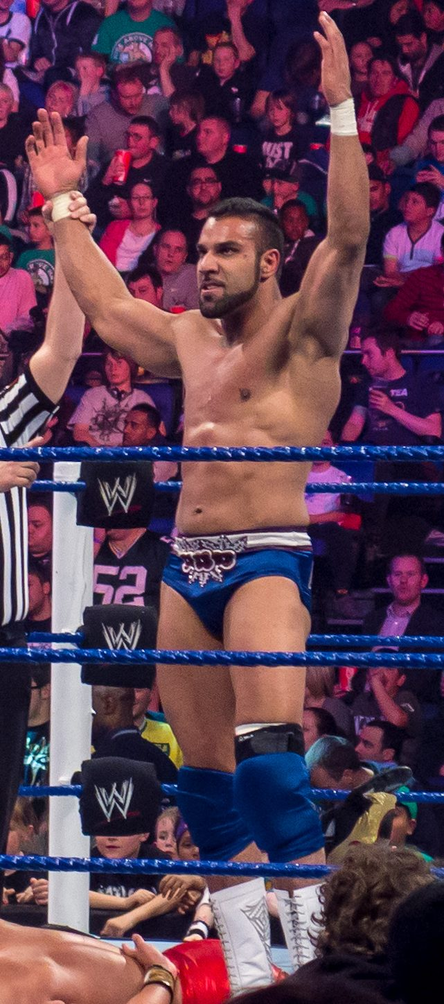 Jinder Mahal at Superstars taping in London 17th April 2012